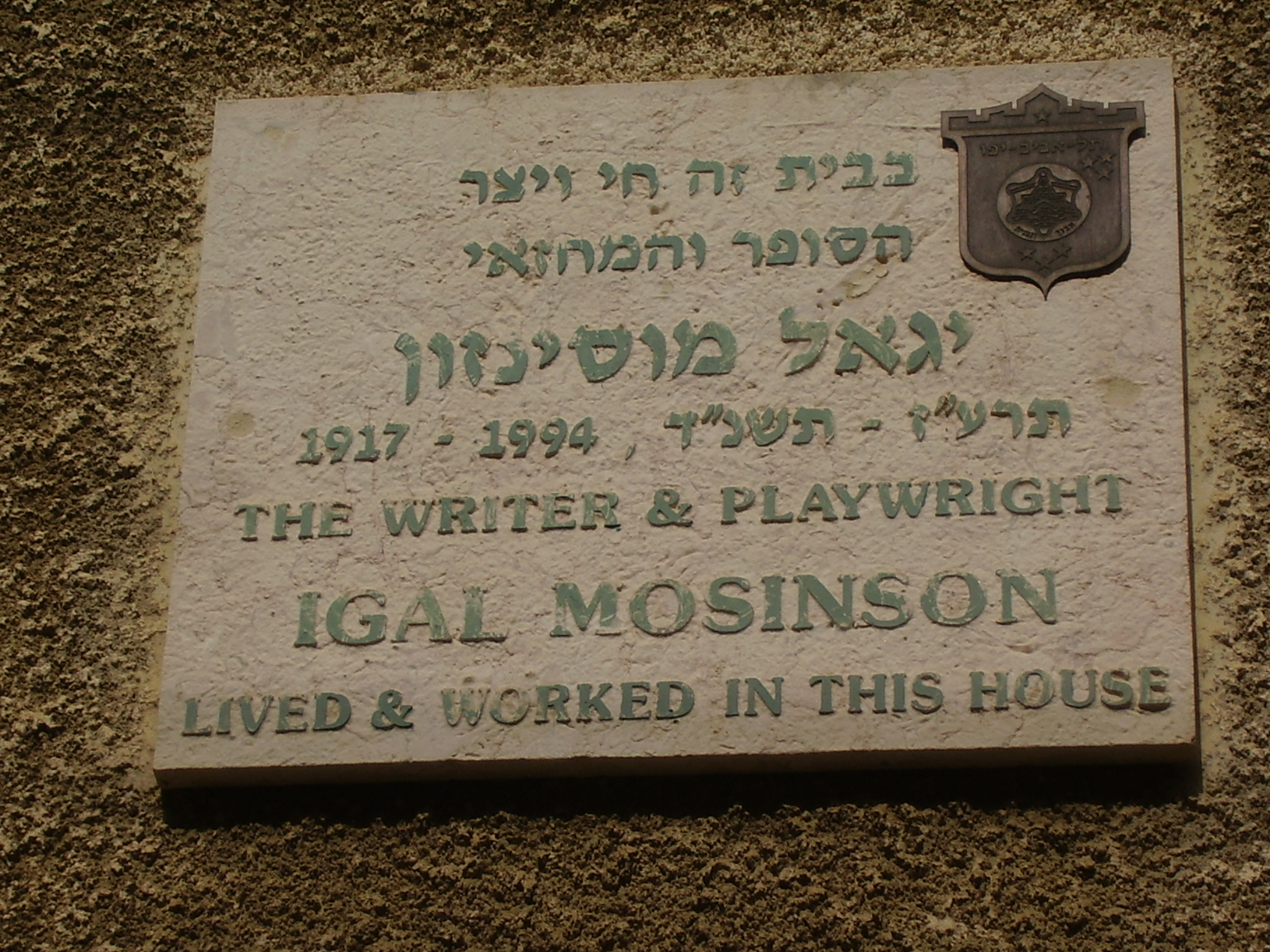 plaque memorial on the writer igal mossinson house in tel aviv לוחית זיכרון על ביתו של הסופר יגאל מוסינזון ברח' סוקולוב 61 בתל אביב